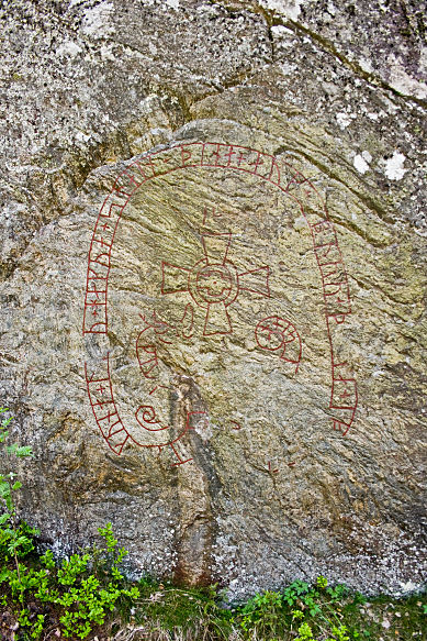 The runic inscription Sö Sb1965;19, carved on a rock wall, from Berga, Haninge, Sweden. It is dated to the late 11th century, and was discovered in 1964. The inscription reads ku...---- ...--... kuna + l-...u + hakua + stain + þina + auk + buru + þ...-a + if... ...-... ...-- sinn. In English "... [and] Gunna had this stone and this bridge made in memory of their ... " There is a small stream nearby.